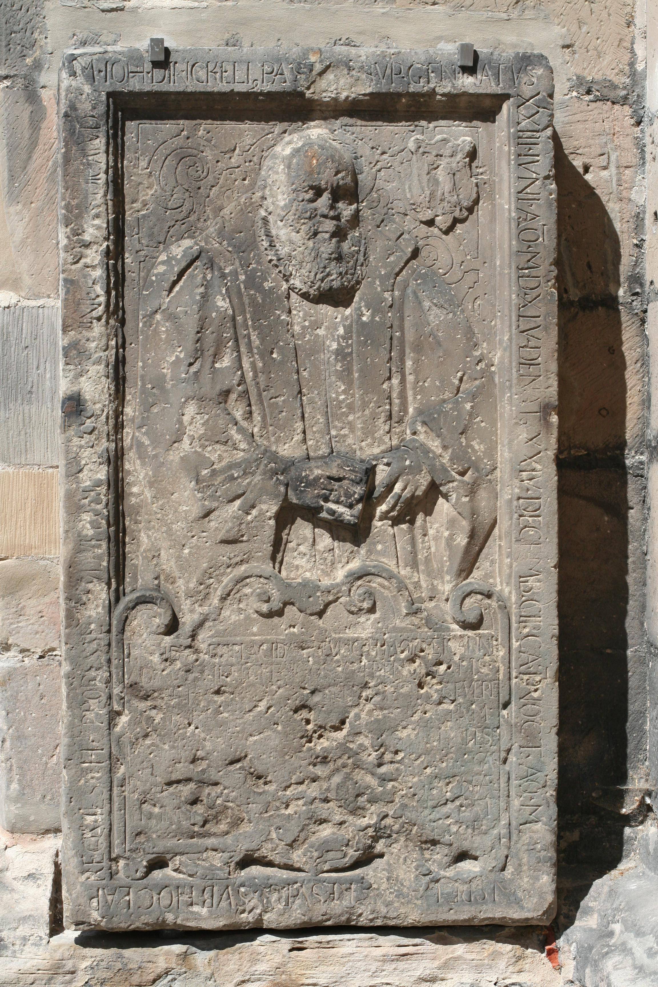 Grave of Johannes Dinckel in Coburg.